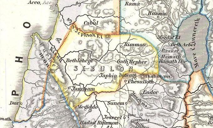 This is Karl von Spruner’s 1865 map of Canaan, Israel, Palestine, or the Holy Land in antiquity. This detailed map focuses on the eastern Mediterranean coastline from Gaza to Sarepta and inland as far as the Dead Sea. Includes the modern day countries of Israel, Palestine, Jordan, Syria and Lebanon. Insets focus on the Sinai, Jerusalem, the vicinity of Jerusalem, and in the lower left, a more regional perspective extending as far east as the Caspian and the Persian Gulf. The map shows important cities, rivers, mountain ranges and other minor topographical detail with place names in both ancient and contemporary forms. Countries and territories are designated with colored borders and each map includes a key or legend. The whole is rendered in finely engraved detail exhibiting throughout the fine craftsmanship of the Perthes firm.